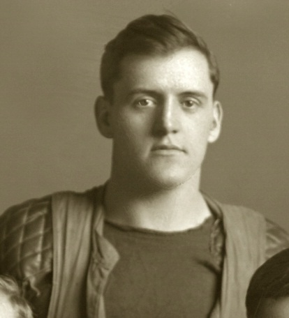 Photograph of William P. Edmunds